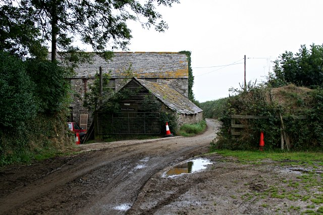 Higher Kernick Farm. Regular cattle movements to and from the farm leave the track somewhat muddy in wet weather.